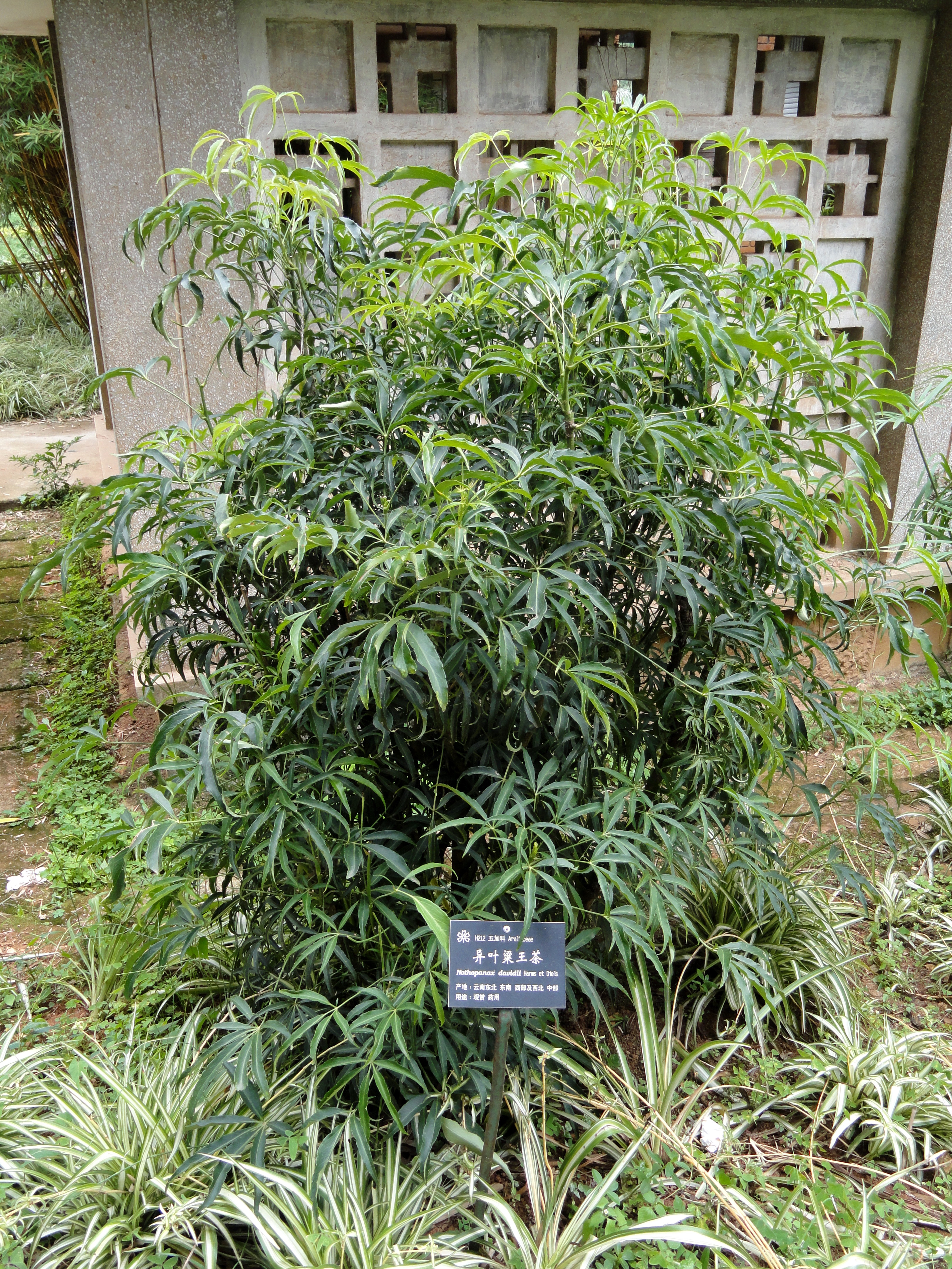 Plant specimen in the Kunming Botanical Garden, Kunming, Yunnan, China.